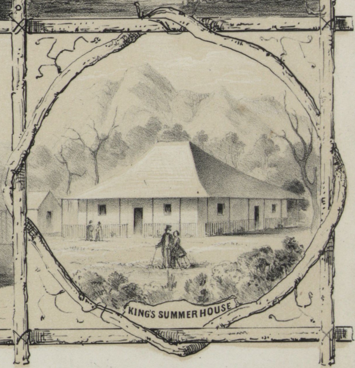 King's Summer House Warren Goodale (1897). "Honolulu in 1853". Papers of the Hawaiian Historical Society. Hawaiian Historical Society.